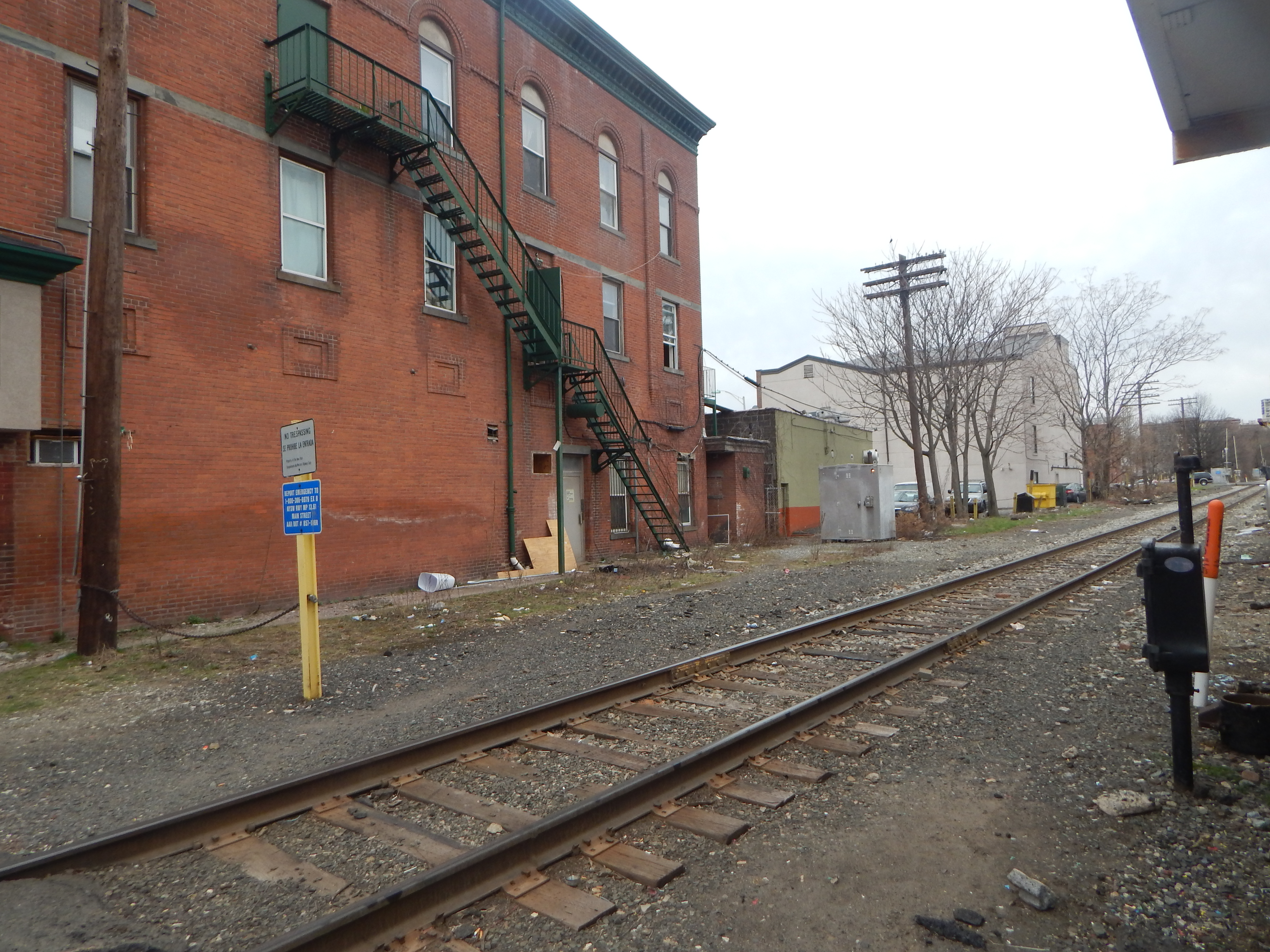 The former Hackensack station for the New York, Susquehanna and Western Railroad station in Hackensack, New Jersey.